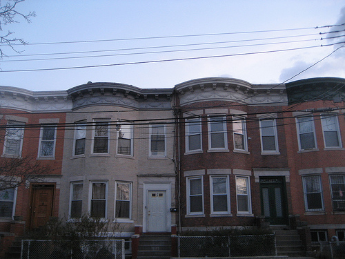 I took this photo and release it under cc-by-sa.